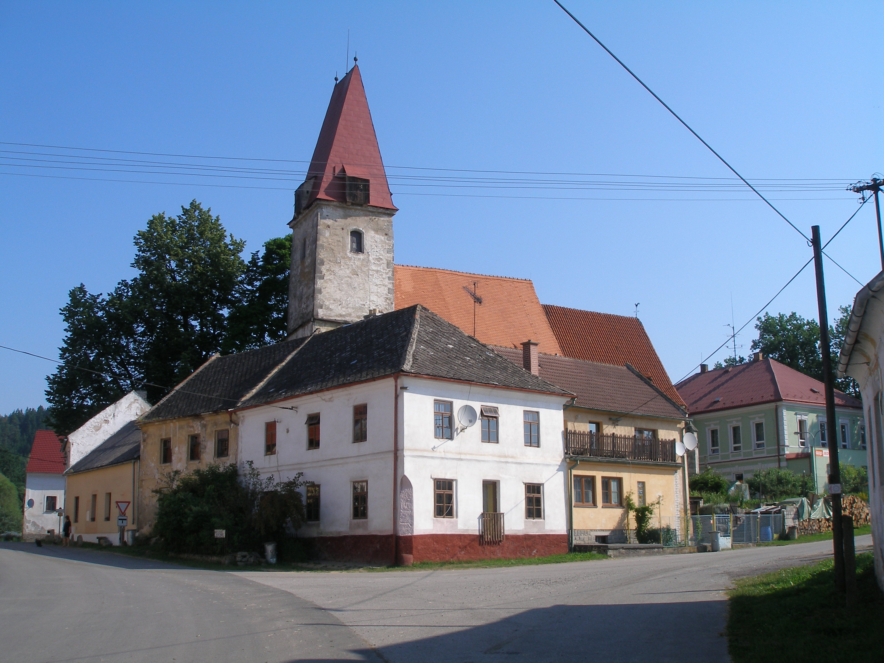 Saint Andrew church in Rychnov nad Malší